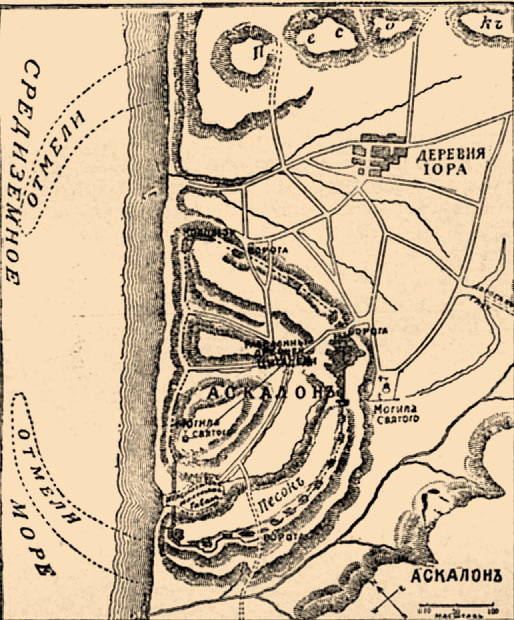 Illustration from Brockhaus and Efron Jewish Encyclopedia (1906—1913)